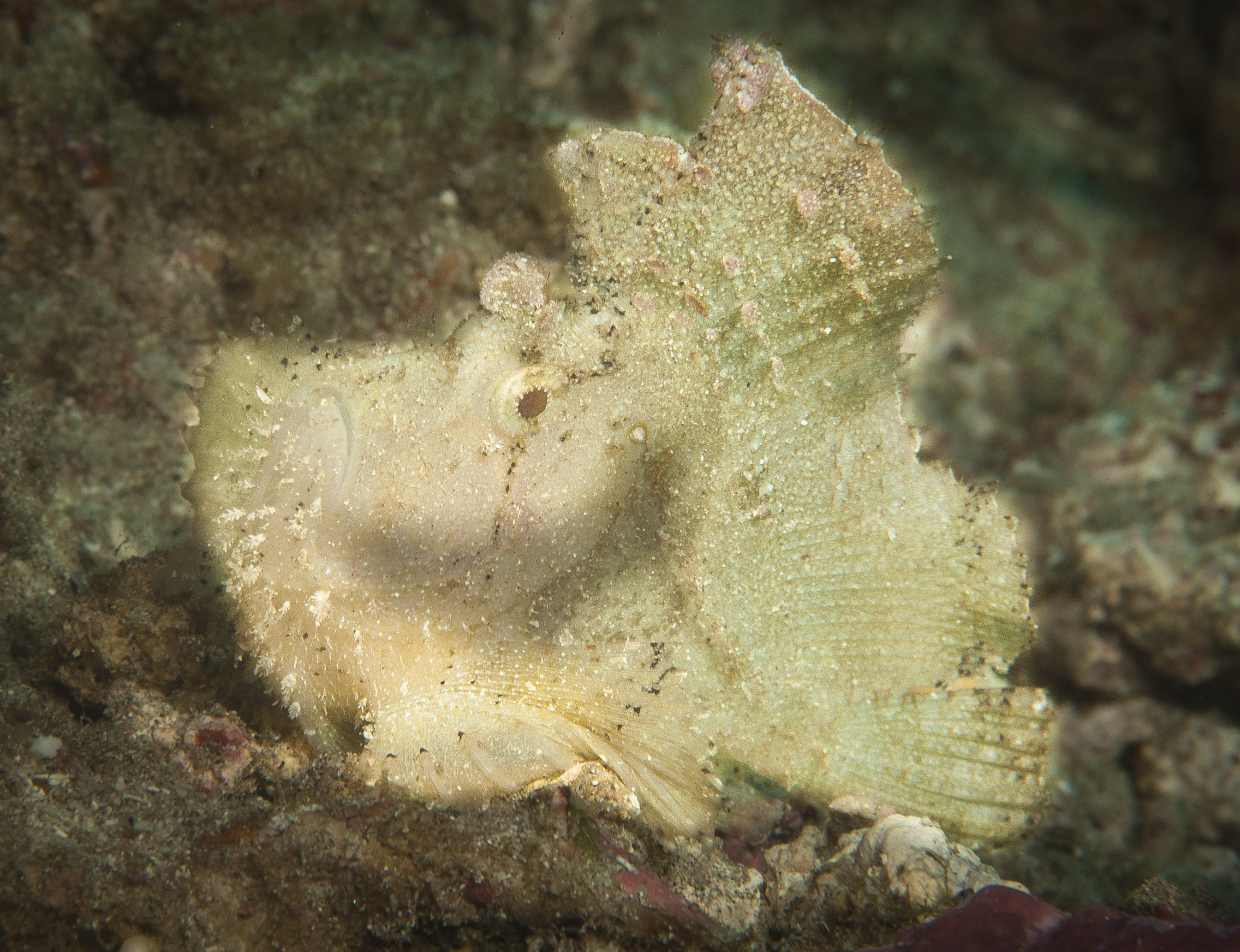 A Leaf Scorpion on a sandy bottom, near Alor Island, Indonesia